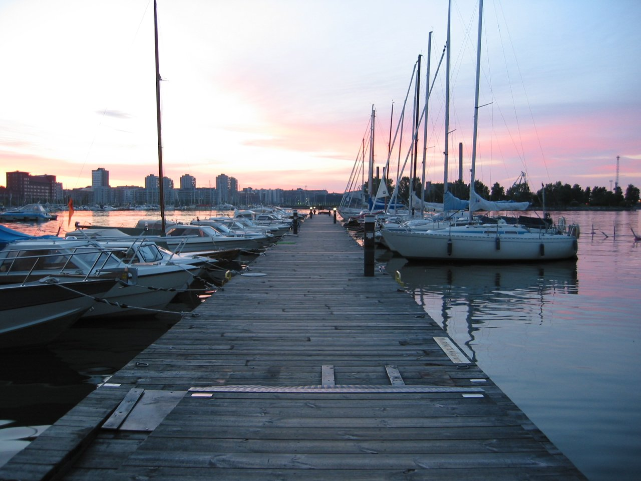 Marina in Katajanokka, Helsinki, Finland during sunset. Merihaka in the background.